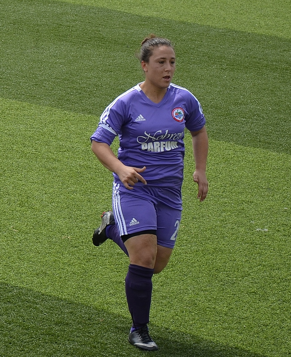 Ebru Aydın for Kdz. Ereğlispor in the 2013-14 season